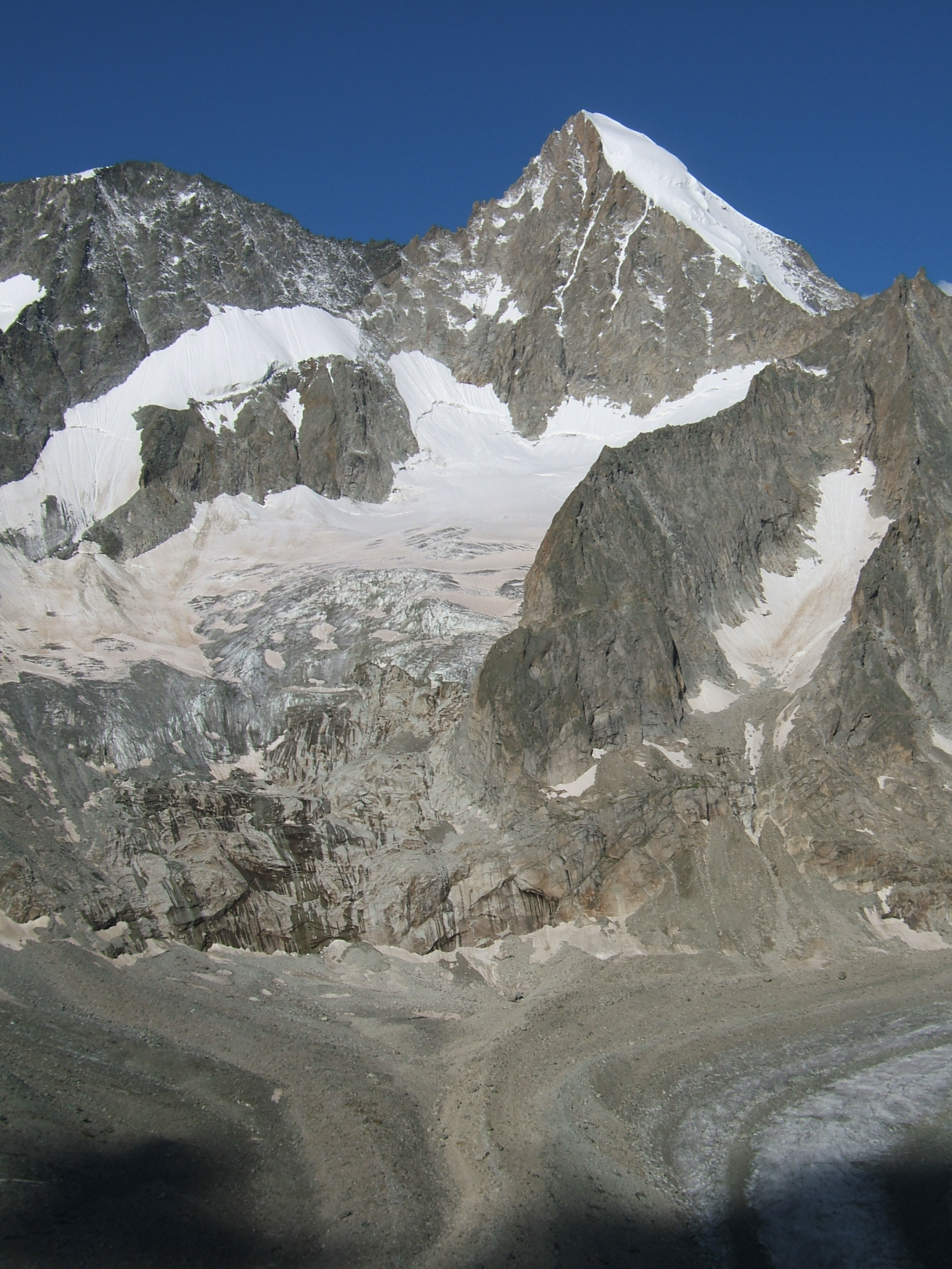 Nesthorn from Oberaletschhütte